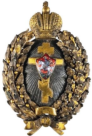 The sign of the Orthodox Karelian brotherhood. Approved in 1907.